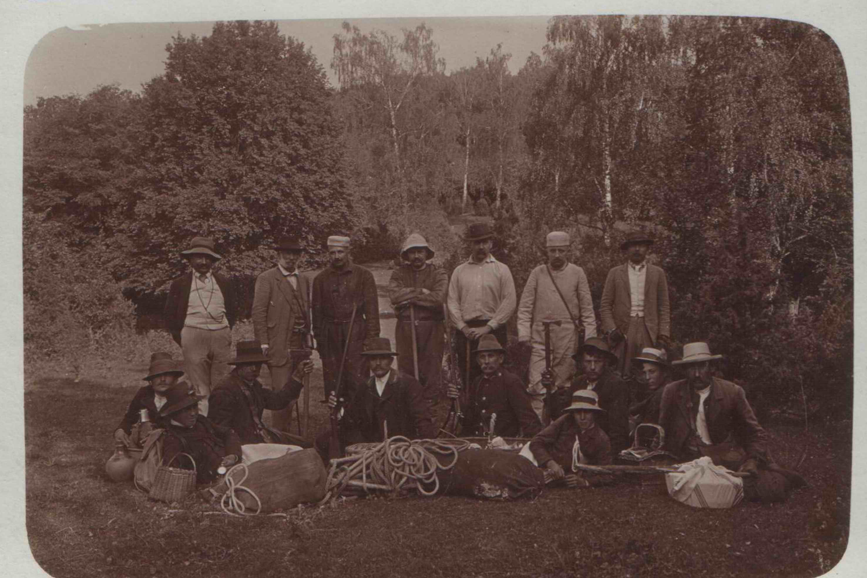 Members of Vecsembükk expedition in 1911 (Hungary).